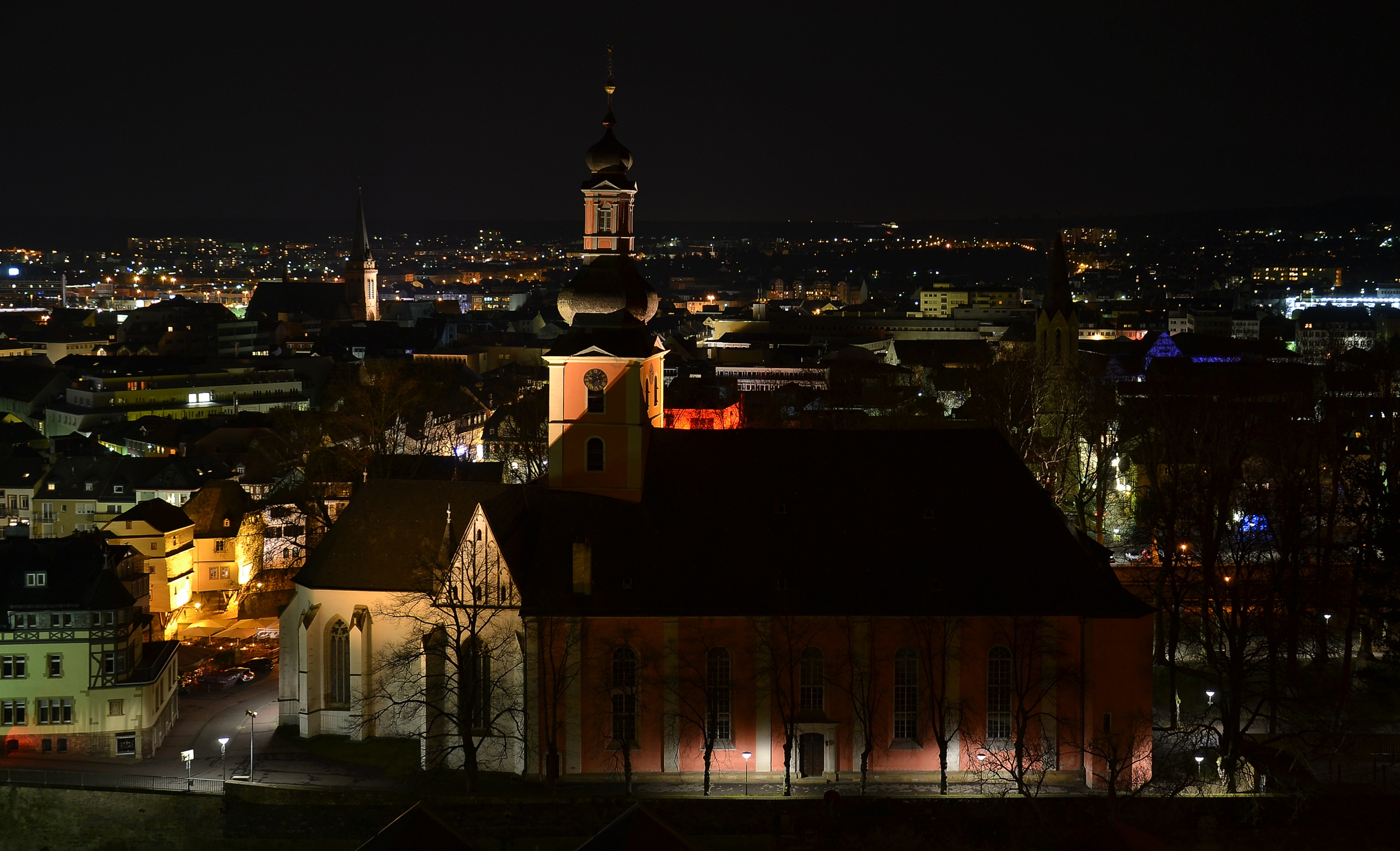 Bad Kreuznach, Germany - view from Krauzenberg castle